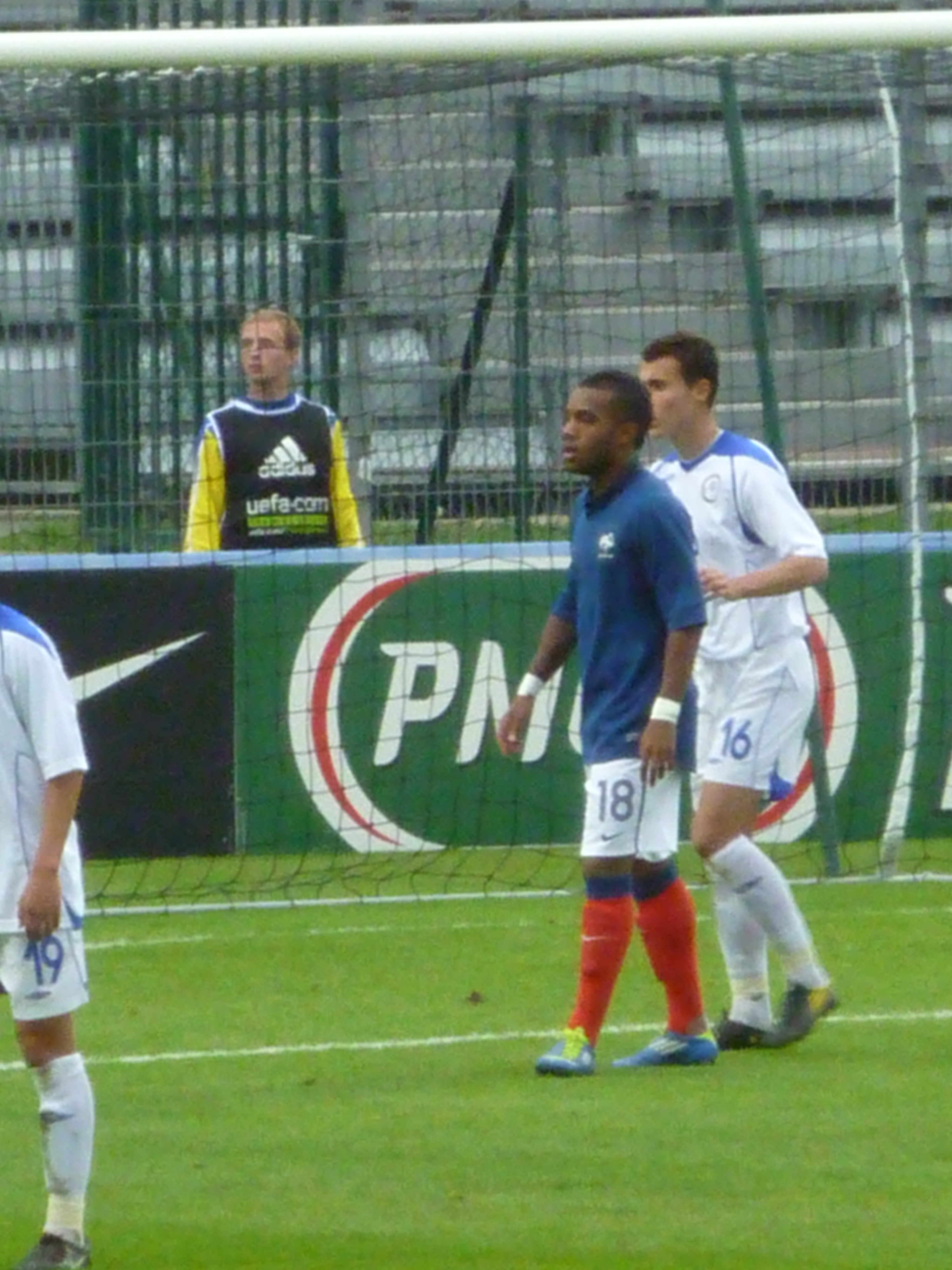 Alexandre Lacazette, striker of the French U21 national team. Qualifier against Kazakhstan in Clermont-Ferrand.